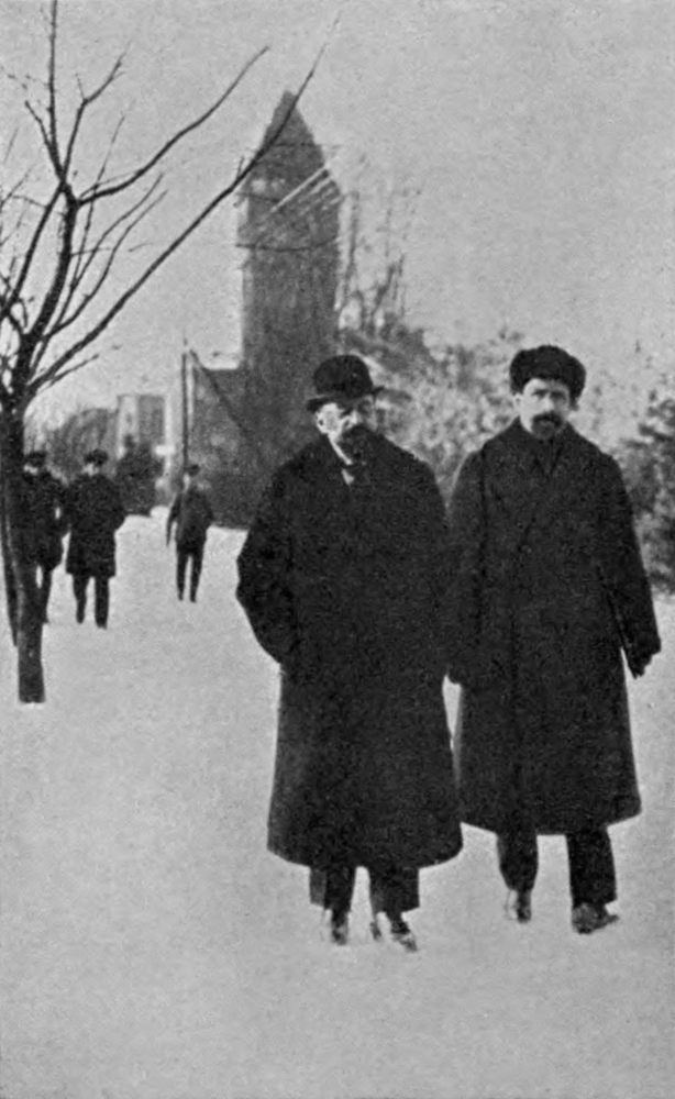 Bolshevik politicians Adolf Joffe and Lev Kamenev in Brest-Litovsk during the peace negotiations with the Central Powers, winter 1917-1918.